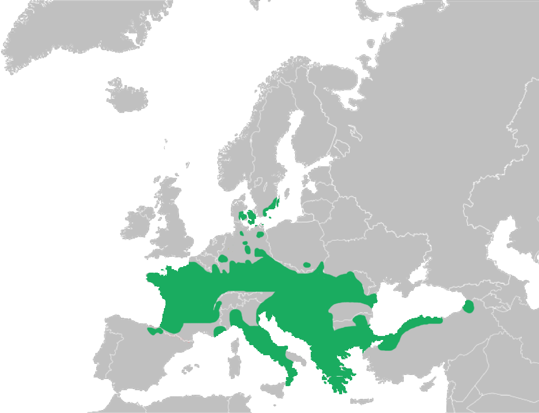 Range map of Rana dalmatina.